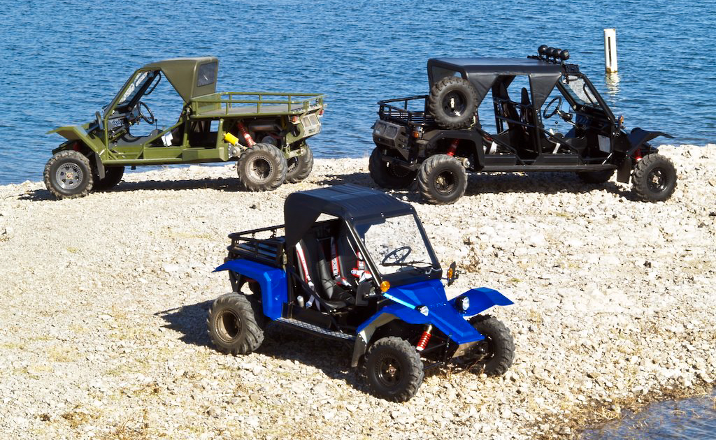 Tomcar TM2, TM4, and a TM5.